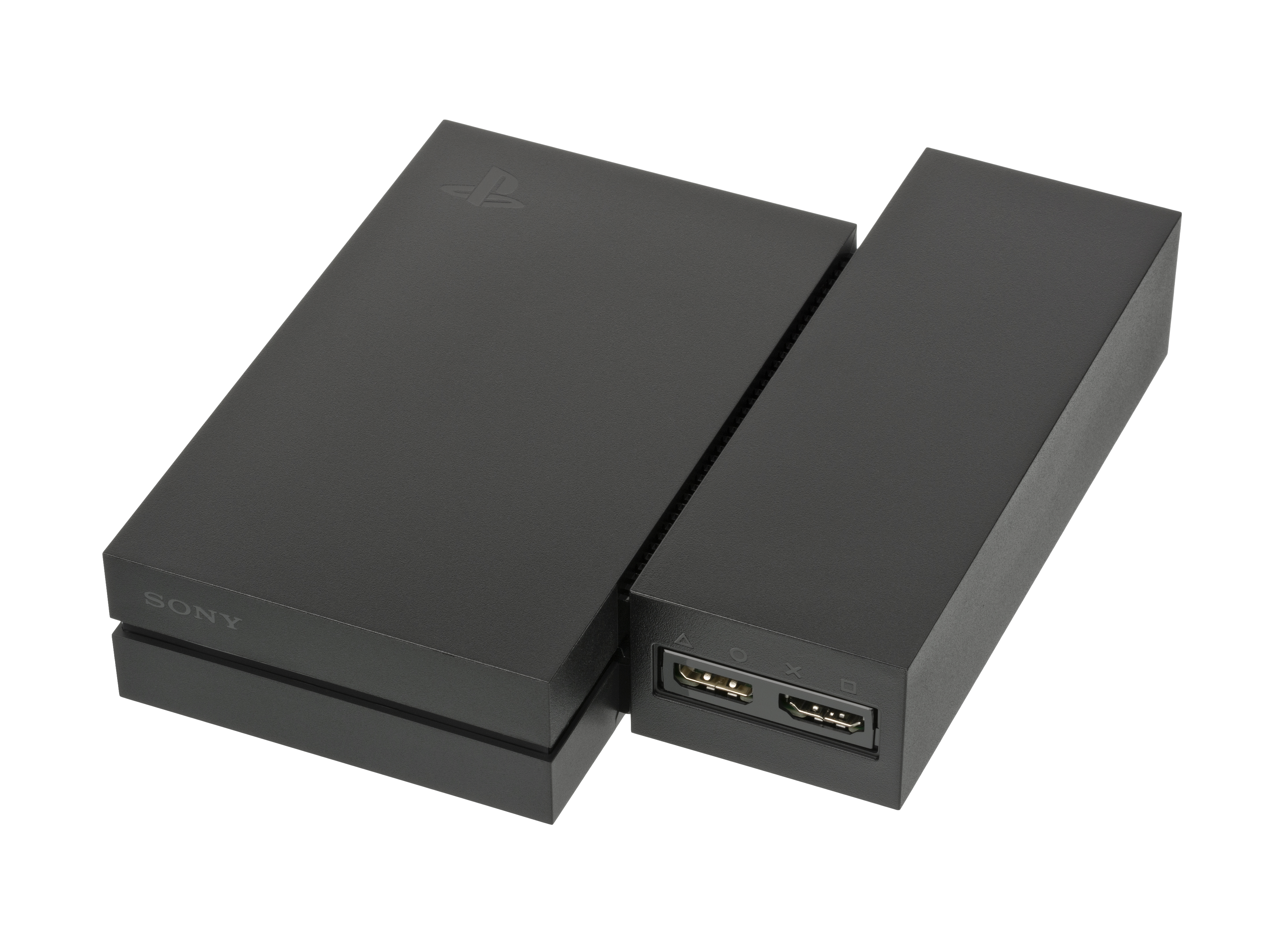 The breakout box for the PlayStation VR, an official virtual reality head-mounted display for the Sony PlayStation 4 video game console. This box sits between the TV, PS4 and PS VR, and is required to run the PS VR. This is the first-generation model, which was blockier.